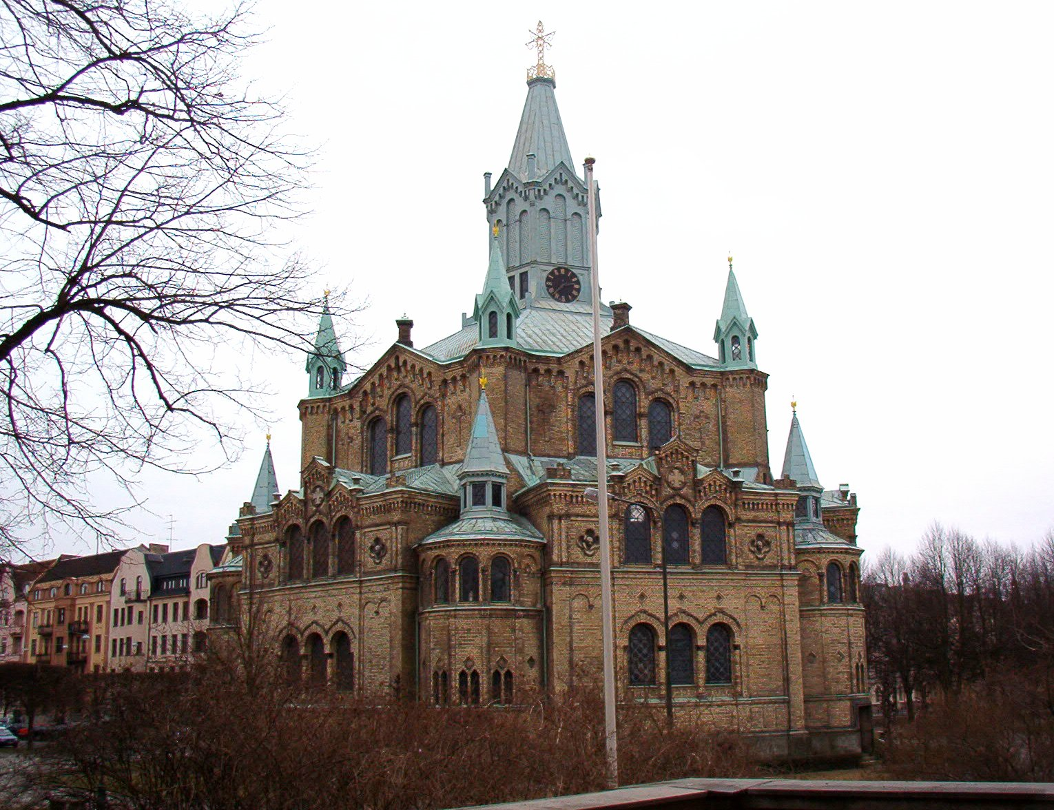 From the side